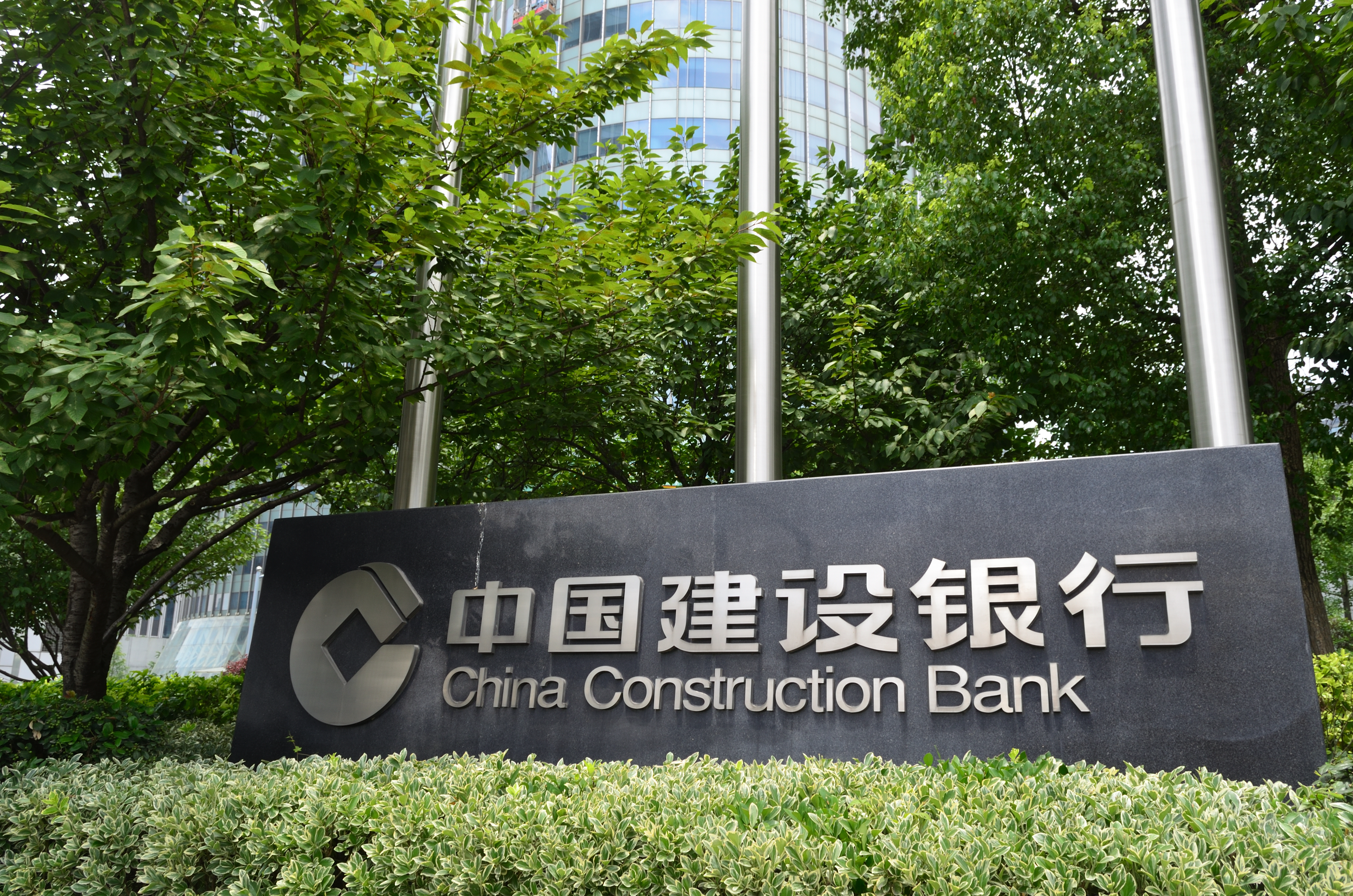 China Construction Bank in Hangzhou